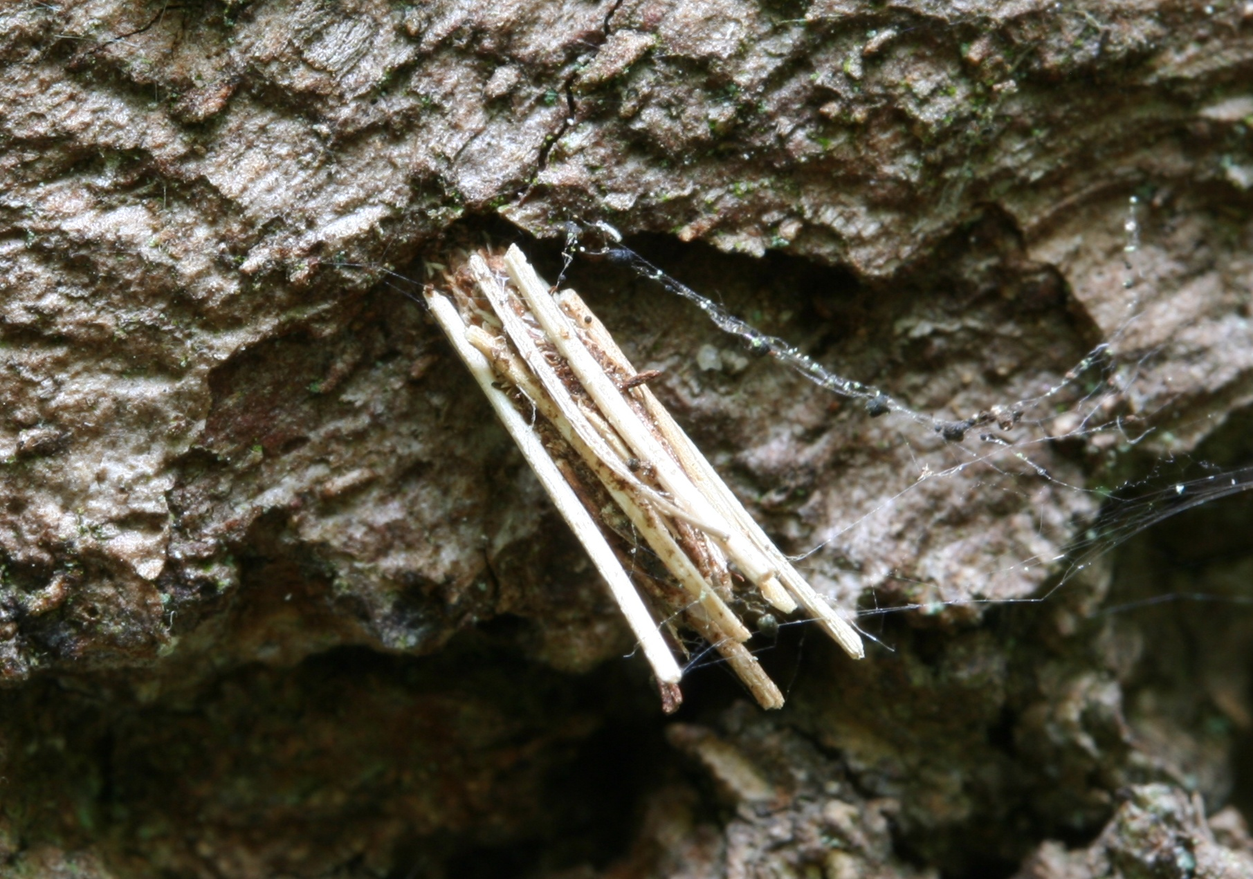 Psyche casta 18 June 2006 IJmuiden, the Netherlands